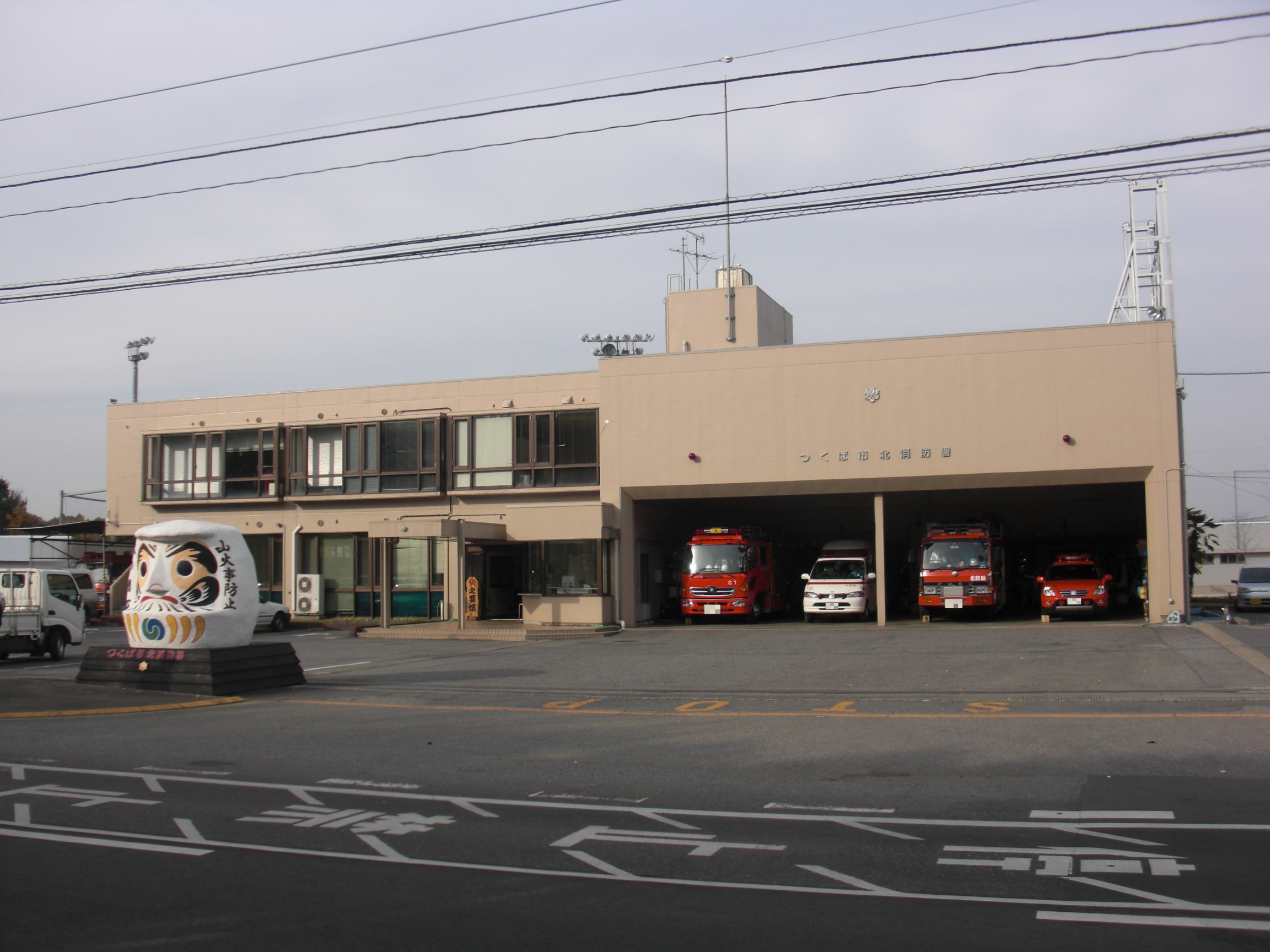 This is a fire station in Tsukuba, Ibaraki ,Japan.